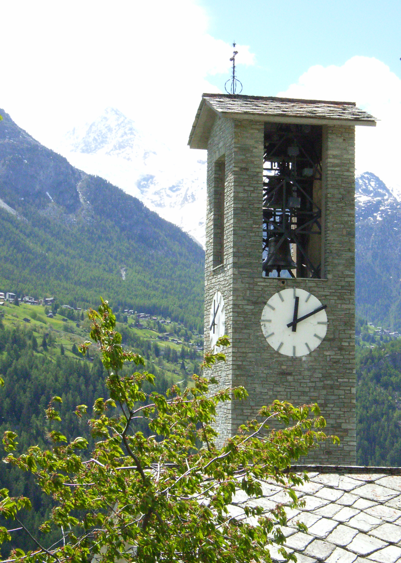 spire of the Church of Peter and Paul in Embd (district of Visp, canton of Valais, Switzerland)